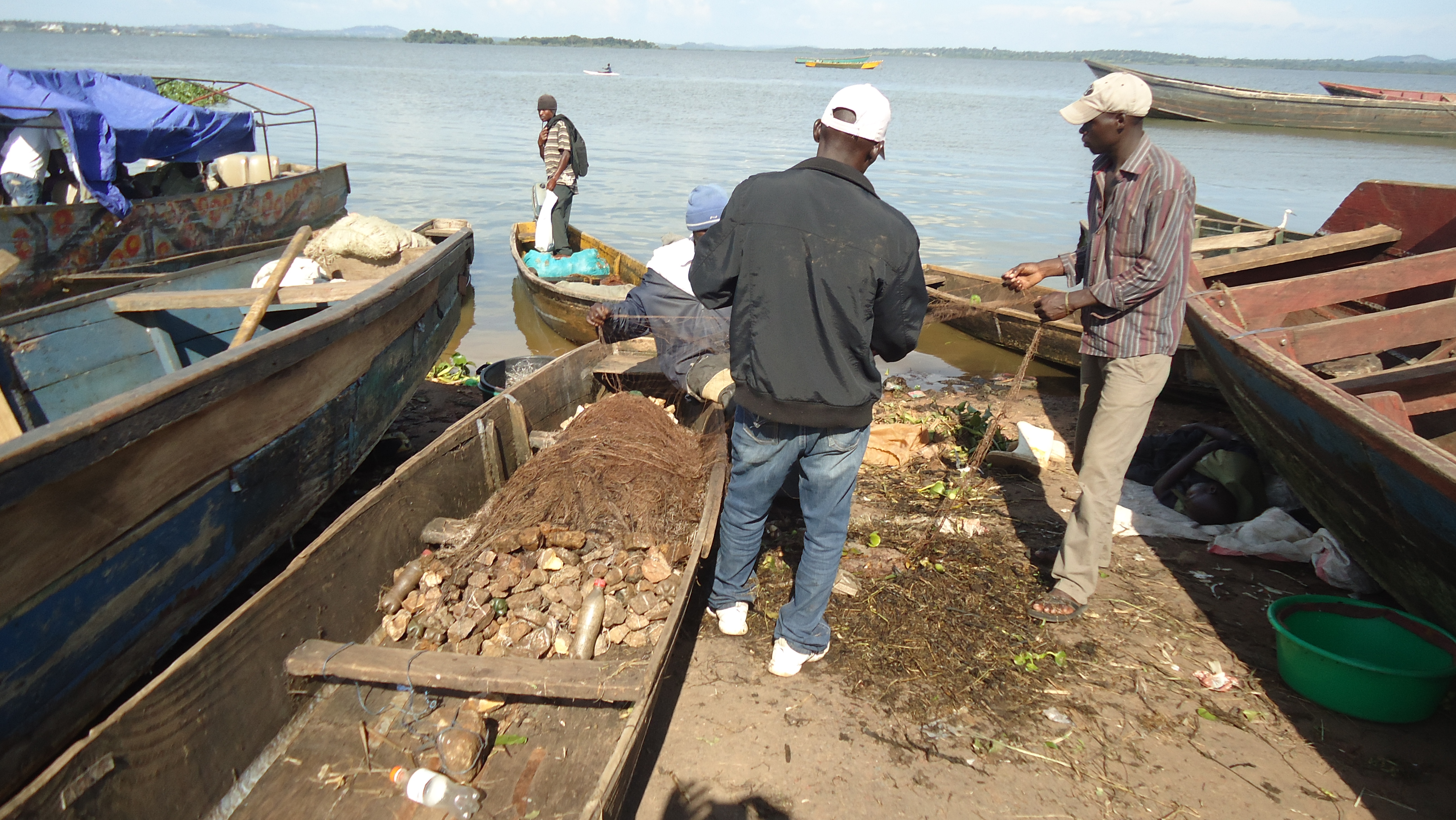 Fishermen with fish nets at gaba landing site in Kampala